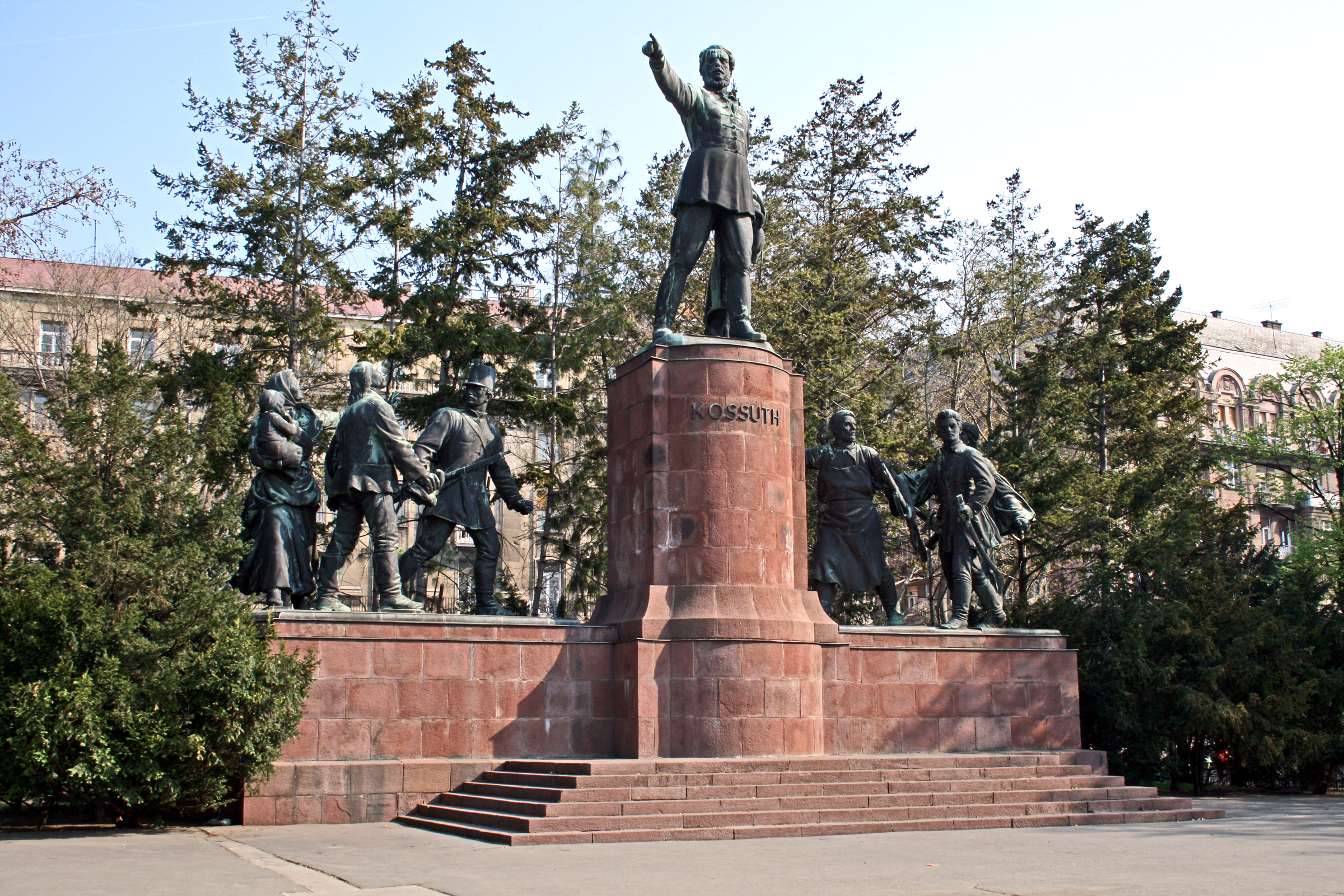 Statue of Kossuth near of Budapest Parliament, Budapest, Hungary